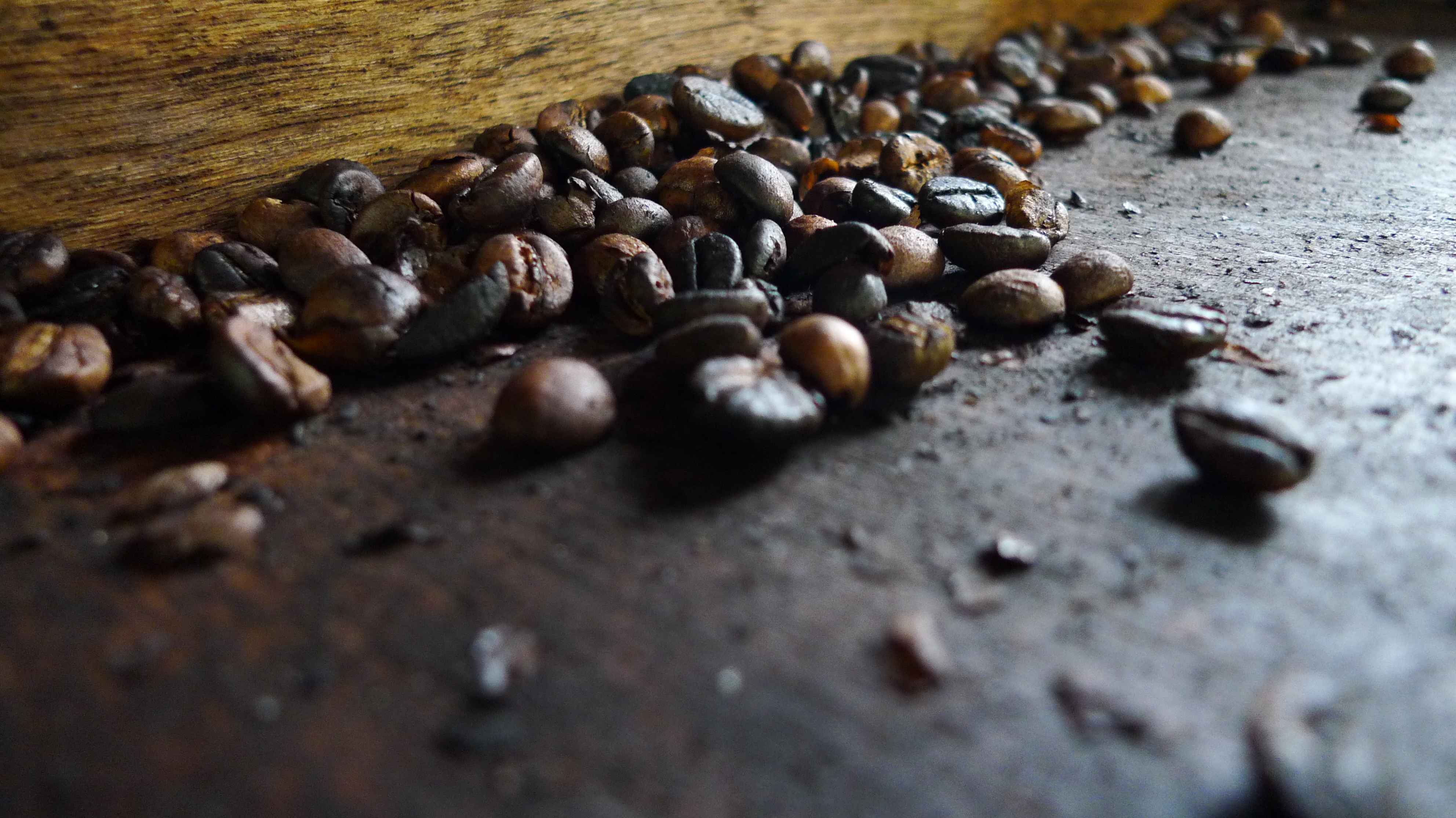 Luwak Coffee Beans